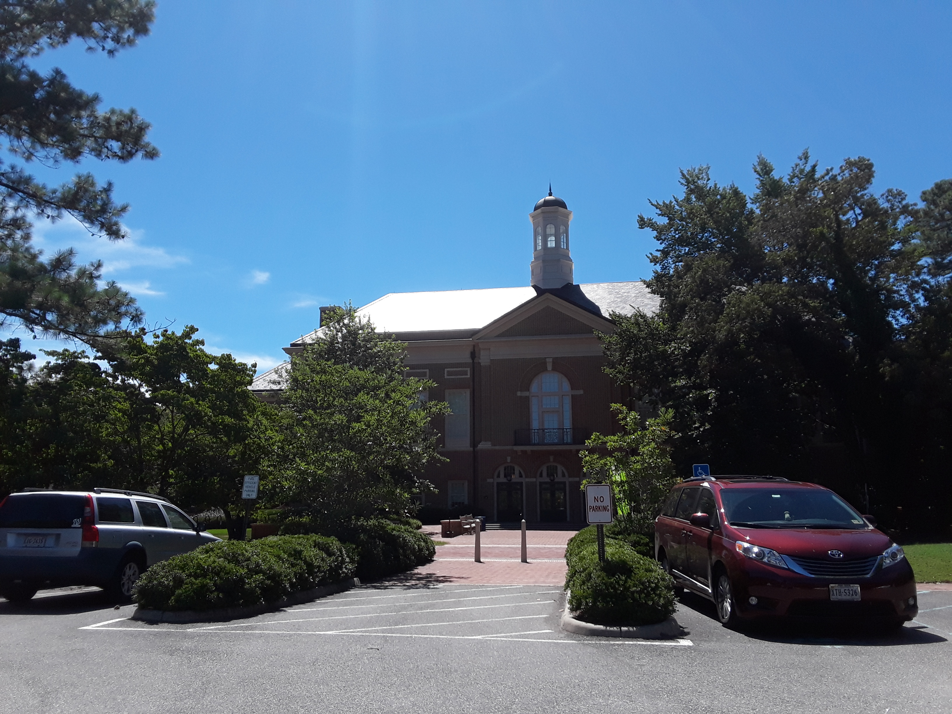 College of William & Mary, Williamsburg, Virginia